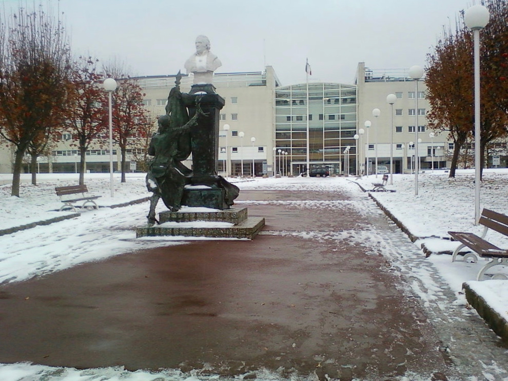 Hôpital d'instruction des armées Percy ("Percy Training Hospital of the Armies")